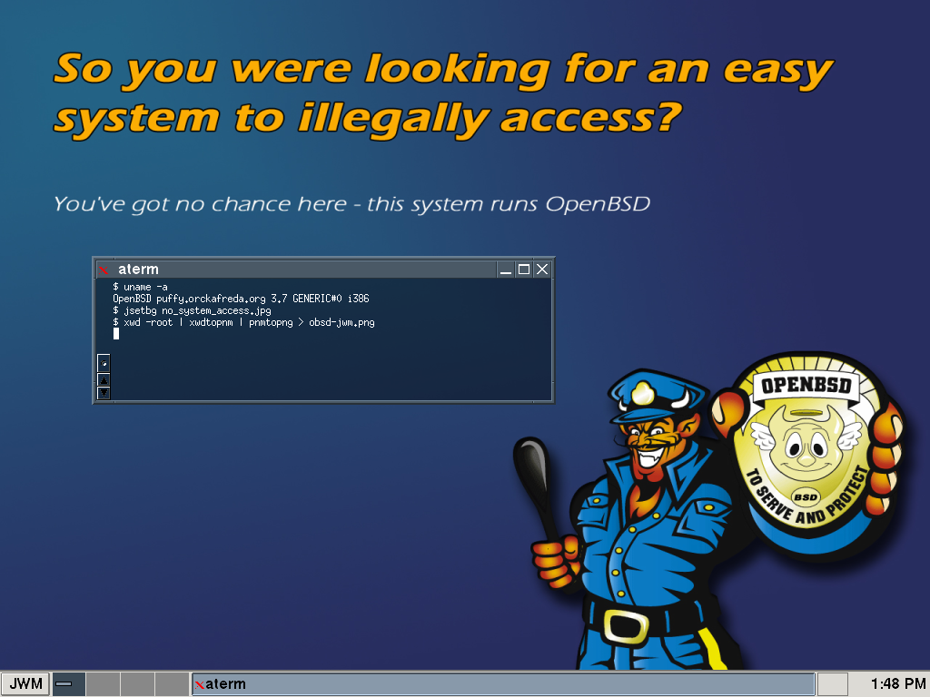 OpenBSD 3.7 with Joe's Window Manager for the window manager, on top of .